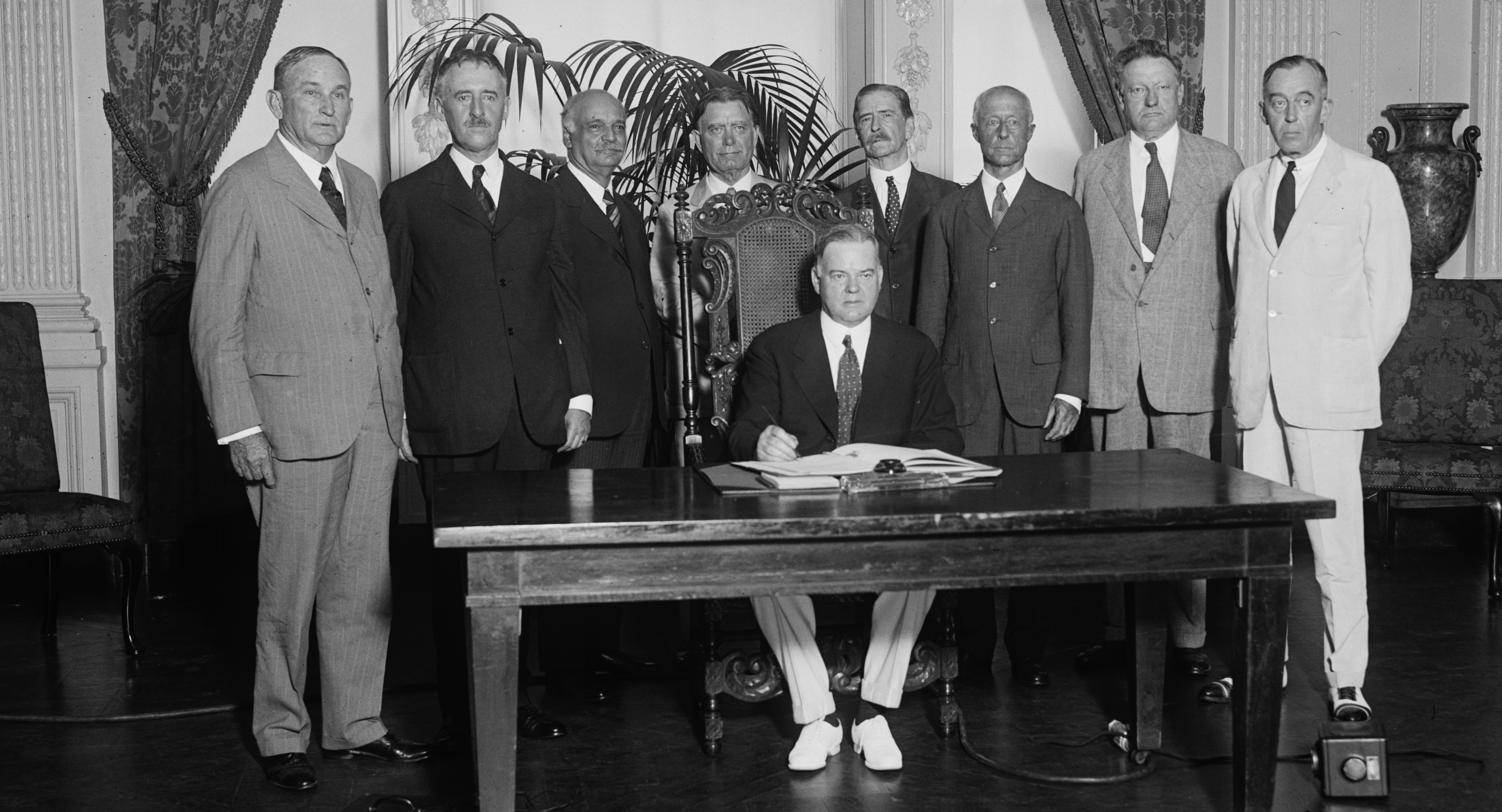 Herbert Hoover at desk with group standing behind him, including members of his Cabinet and Senators: Sen. Joseph T. Robinson, Sec. Henry Stimson, Vice Pres. Charles Curtis, Sen. William Borah, Sec. Patrick J. Hurley, Sec. Charles F. Adams, Sen. James E. Watson, and Sen. David A. Reed